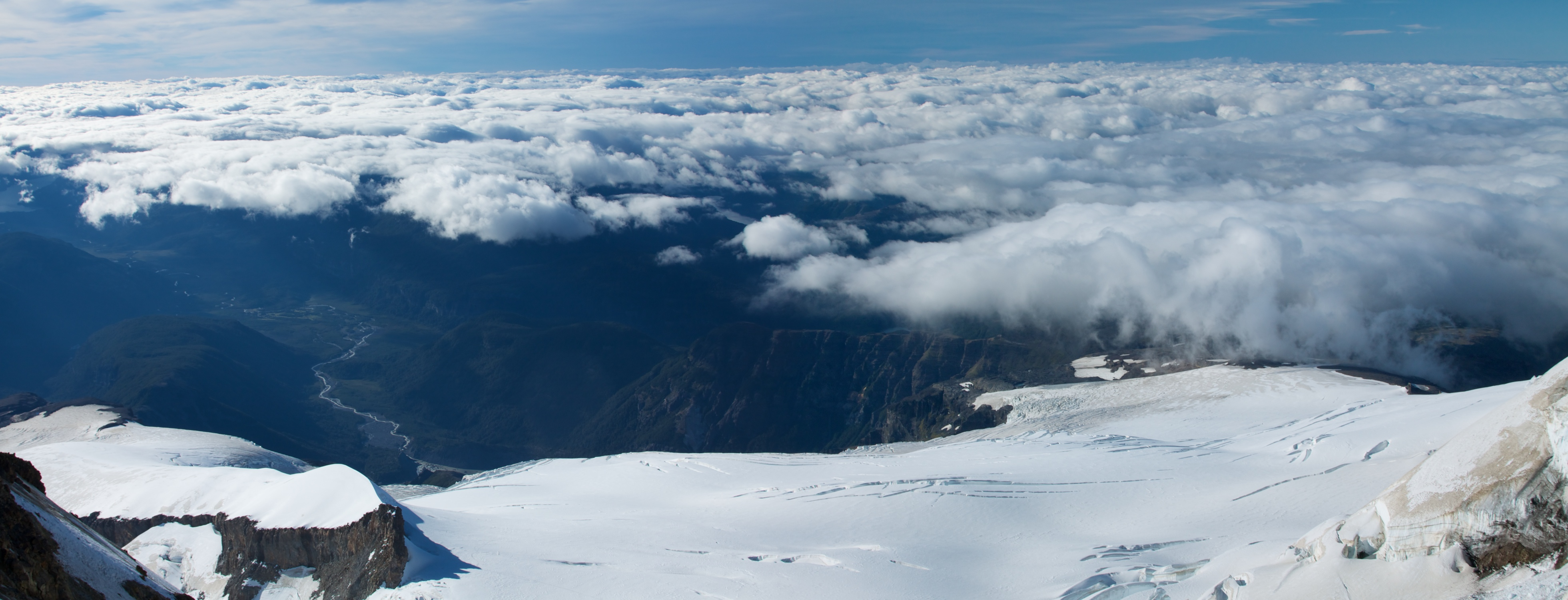 Looking down the clouded valley below us